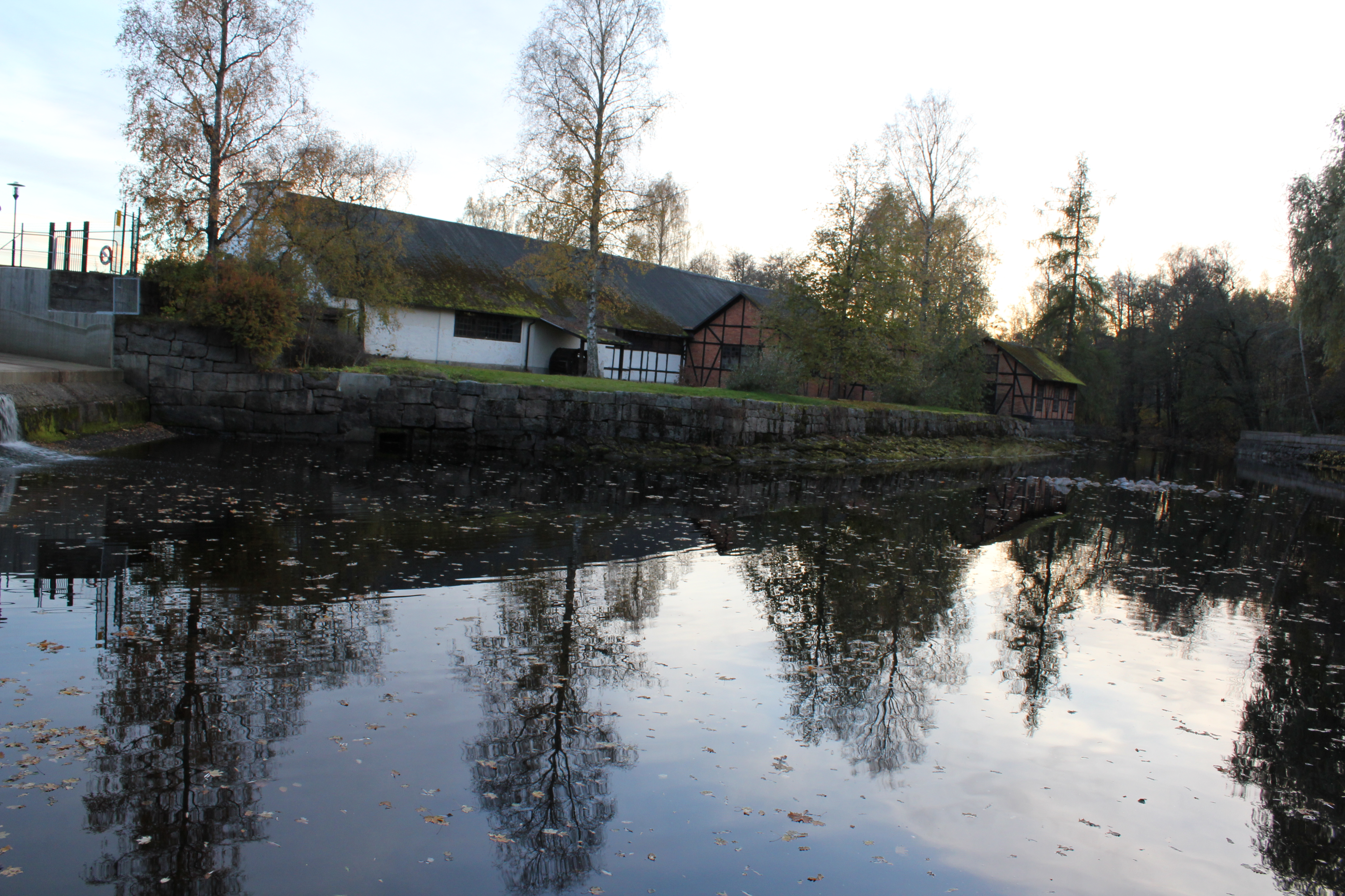 Ironworks of Surahammar, Sweden